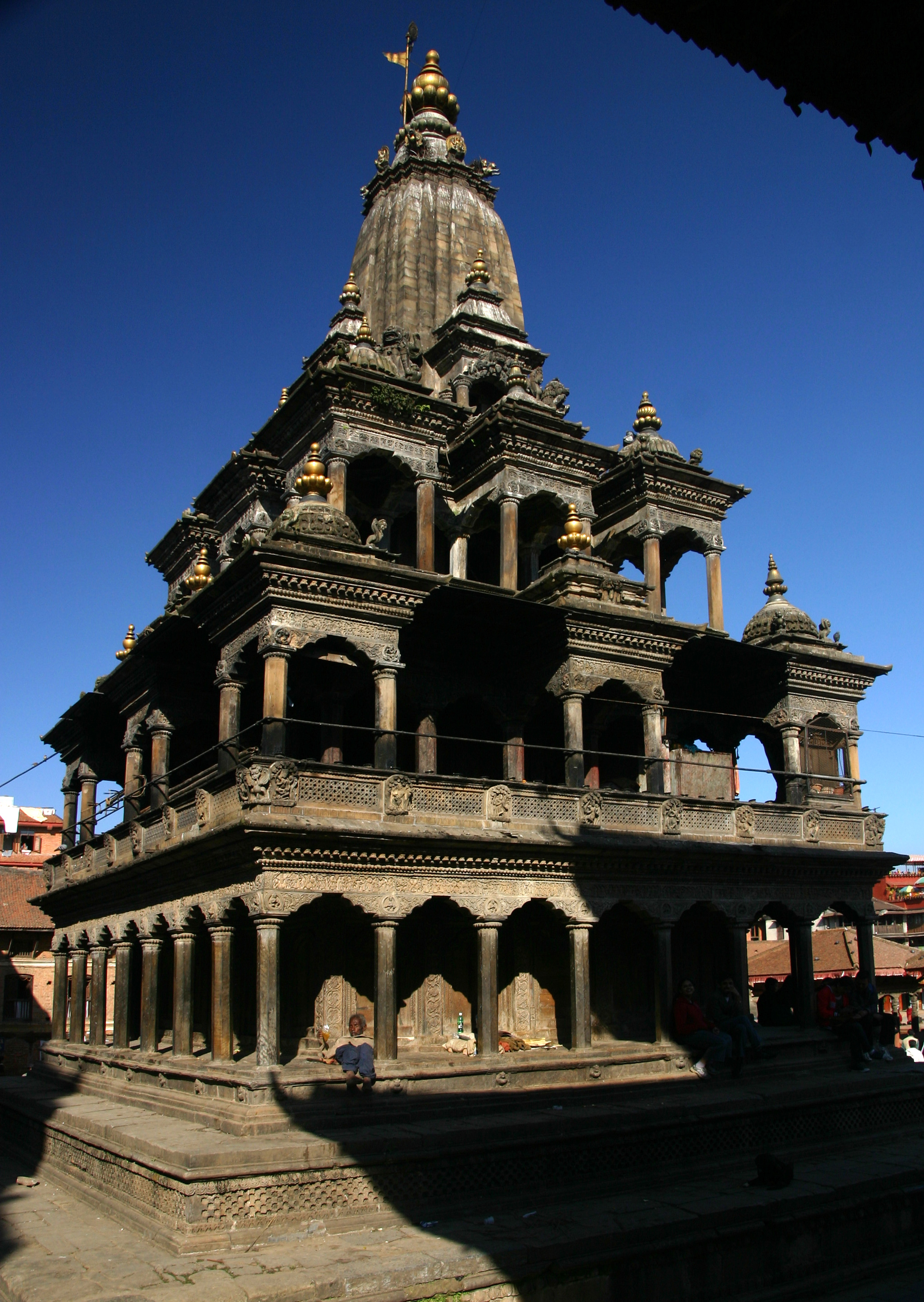 Krishna Mandir on the Durbar Square in Patan in Nepal